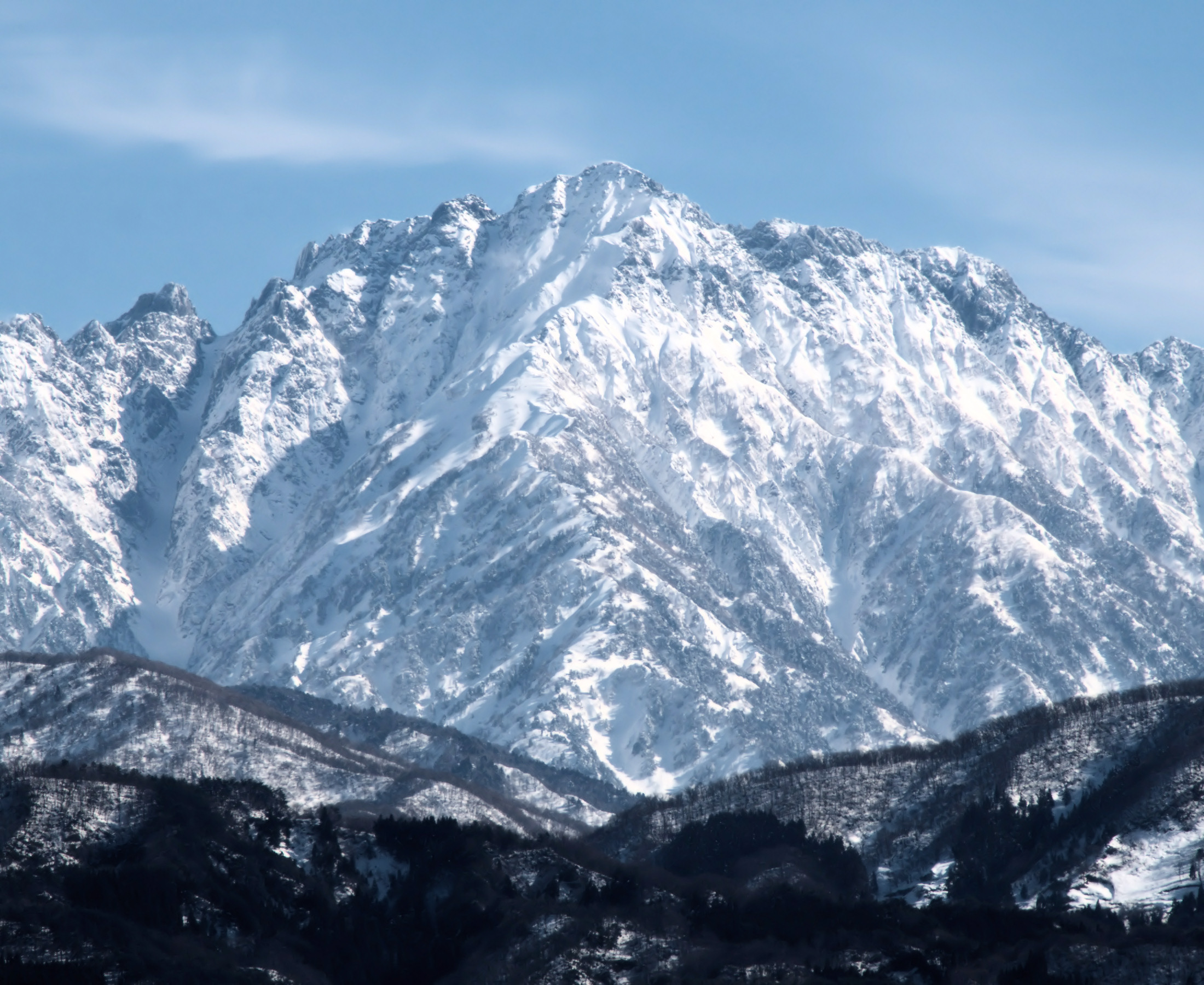 Mount Tsurugi seen from the WNW.